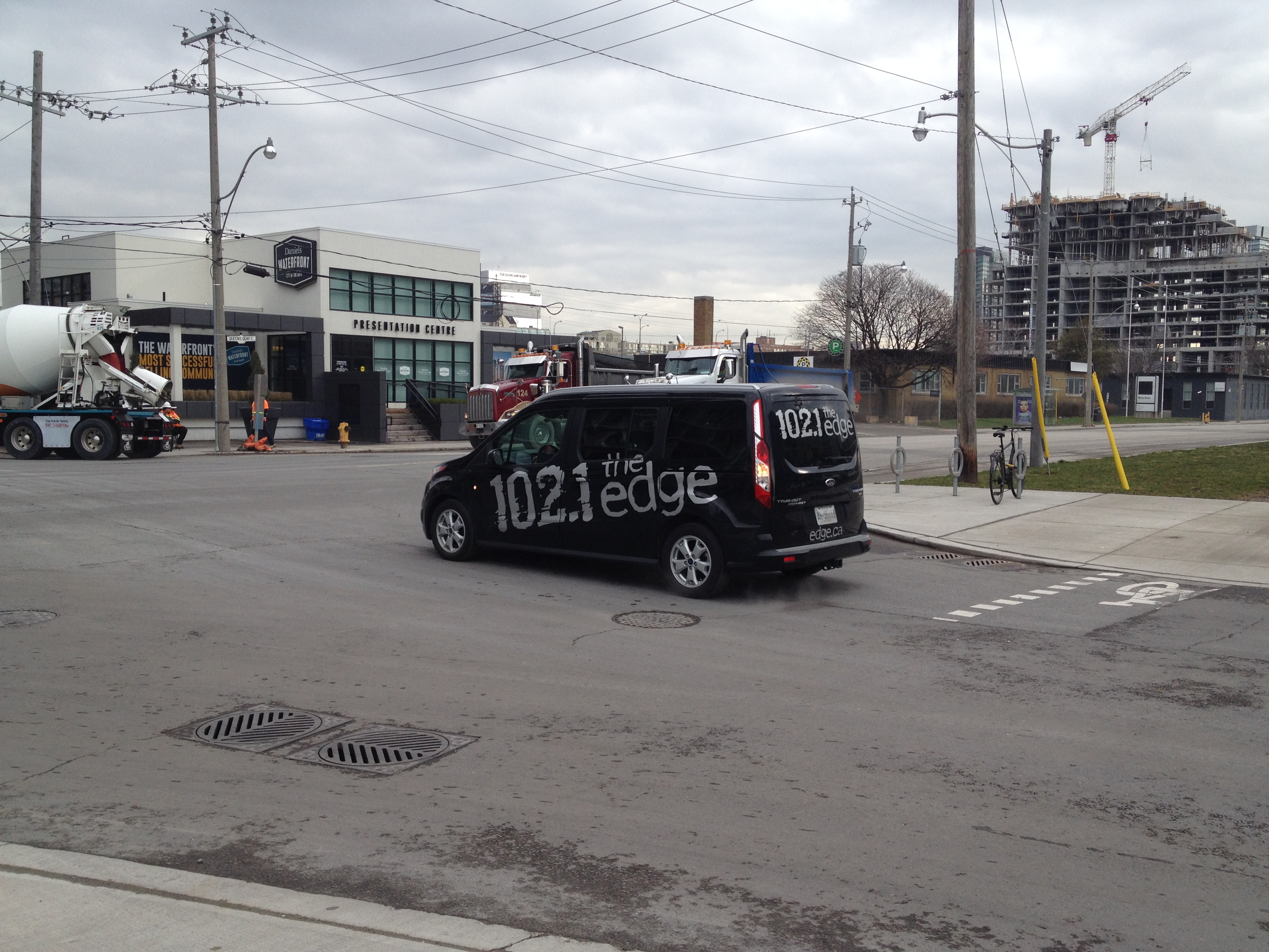 102.1 The Edge Ford Transit Connect on Queens Quay, Toronto, Ontario.